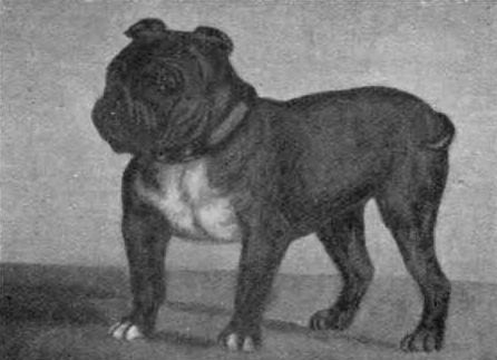 1903 photograph of Toy Bulldog champion Little Knot.